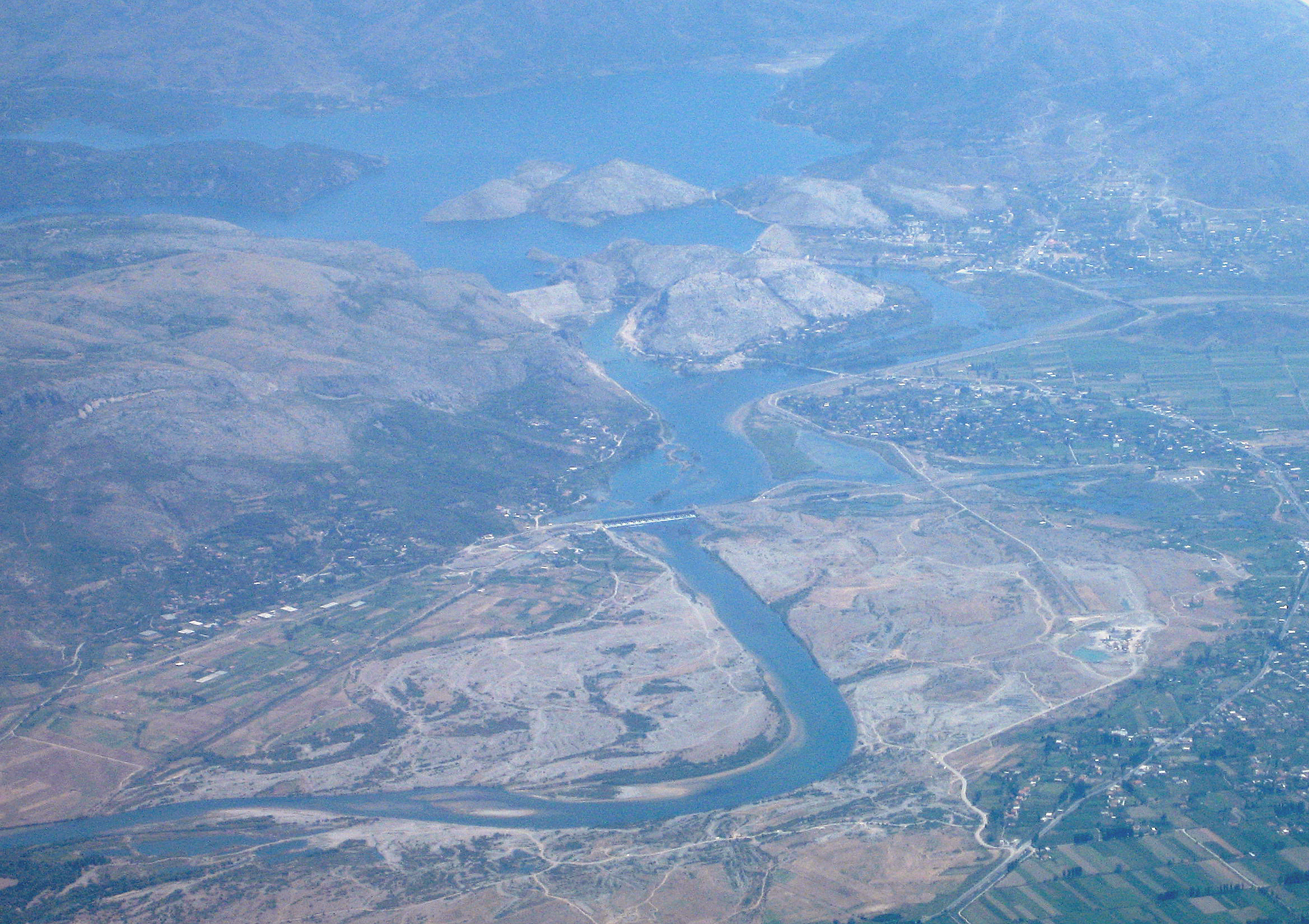 Artificial lake of Vau i Dejës, Albania